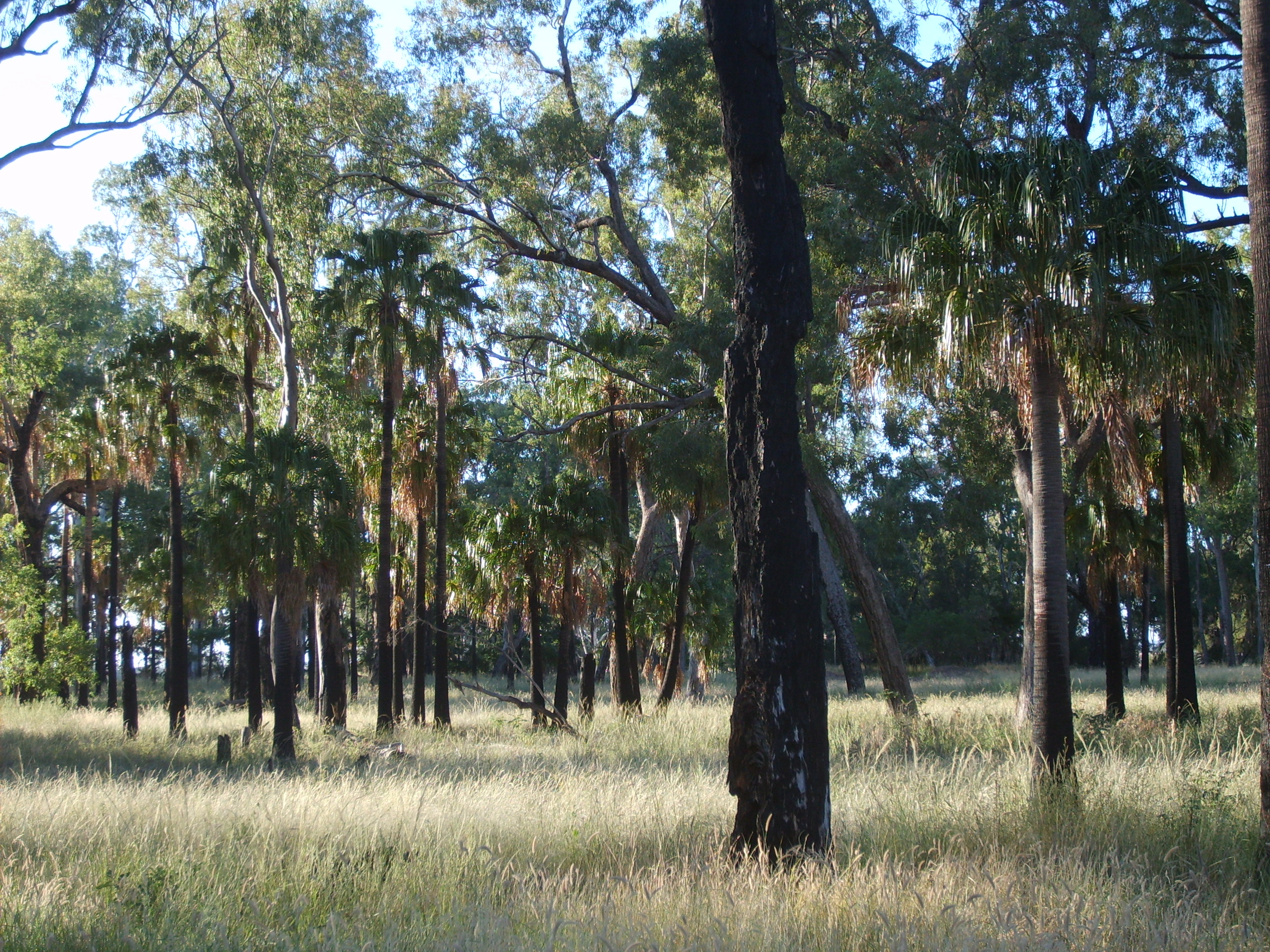 Dawson palms (Livistona nitida), aka cabbage tree palms, at Lake Murphy Conservation Park, QLD Australia, April 2007.